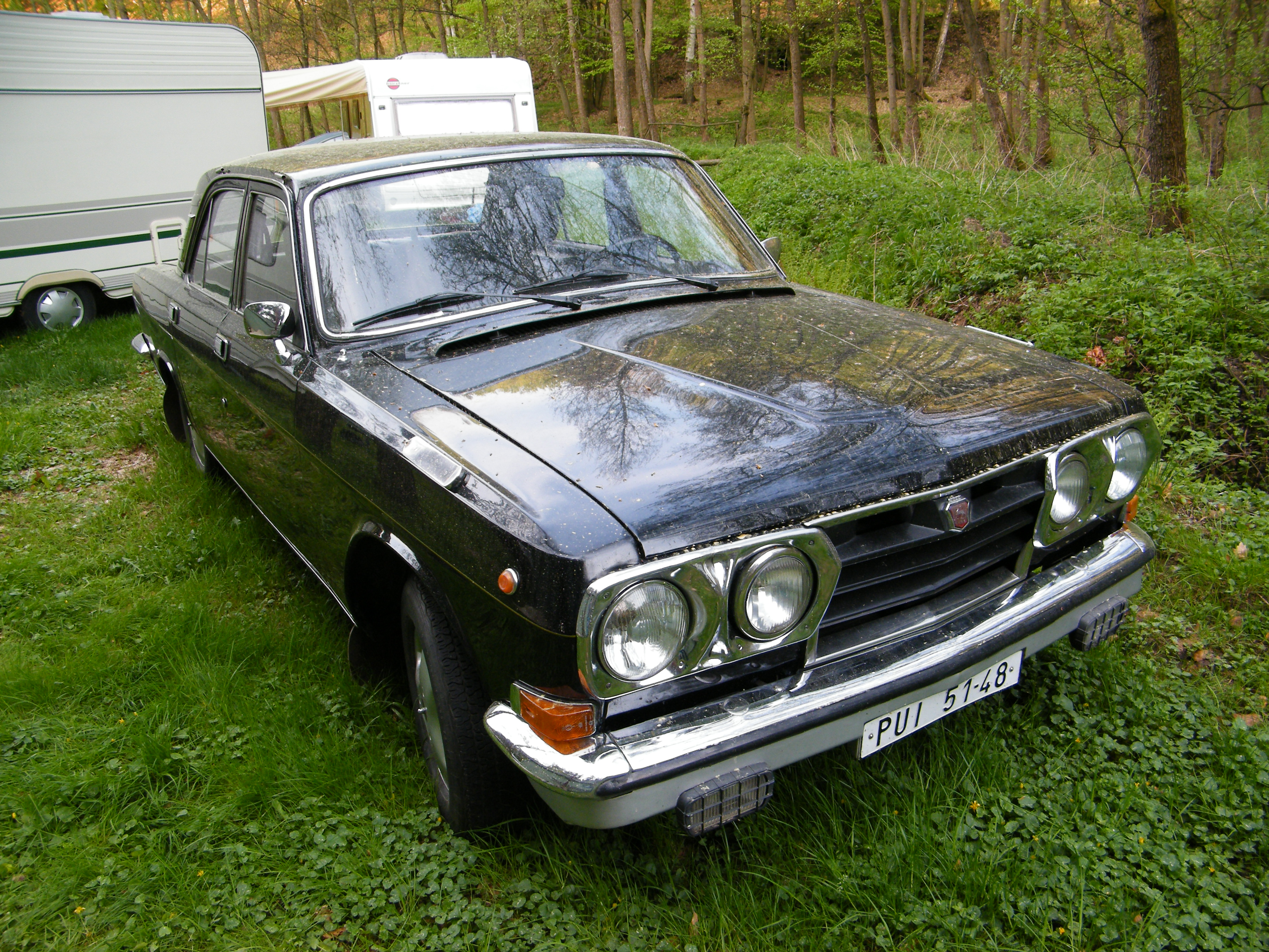 Volga GAZ-24 with four lights in the front and special backlights.